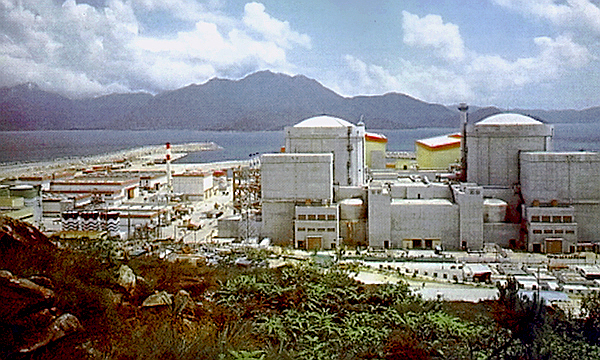 Daya Bay nuclear power plant in Longgang District, Shenzhen, China